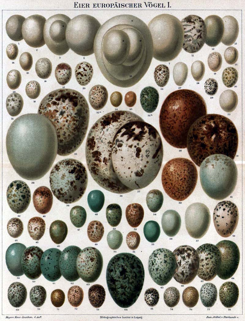 This is page 352b, as numbered of 1028, in Volume 5 of the German illustrated encyclopedia Meyers Konversationslexikon, 4th edition (1885-1890), fraktur font, title "Eggs of European birds. Plate I" showing 78 birdeggs as numbered 1-78, c. 1888.